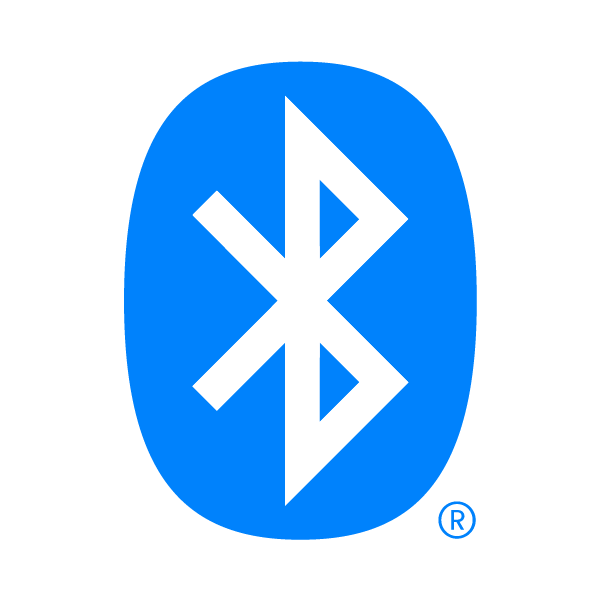 New color in Rune-only logo